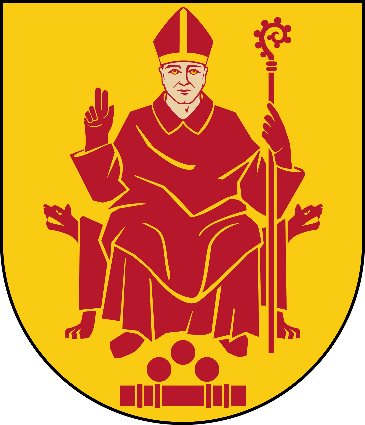 Coat of arms of the municipality of Lidköping, Sweden. Painted by Vladimir A. Sagerlund when he was the heraldic artist at the National Archives of Sweden (Riksarkivet). This representation of a coat of arms is potentially different from the one used by the armiger (municipality or organisation) in question. = ⇑“Sable, a lionrampant or” This coat of arms was drawn based on its blazon which – being a written description – is free from copyright. Any illustration conforming with the blazon of the arms is considered to be heraldically correct. Thus several different artistic interpretations of the same coat of arms can exist. The design officially used by the armiger is likely protected by copyright, in which case it cannot be used here.Individual representations of a coat of arms, drawn from a blazon, may have a copyright belonging to the artist, but are not necessarily derivative works. Further information: Commons:Coats of arms and Template:Coa blazon